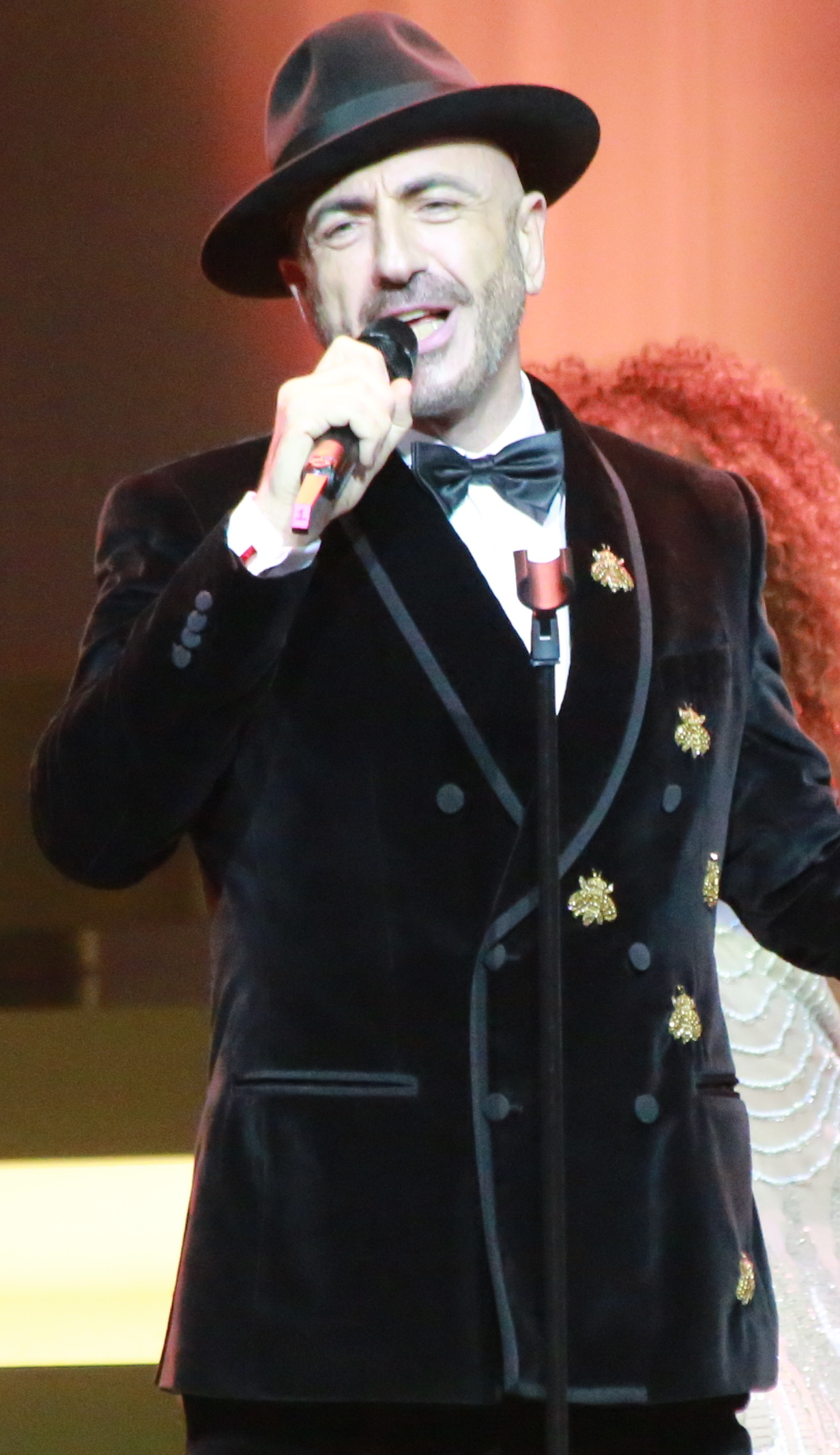 Serhat performing at the 2015 Golden Butterfly Awards.